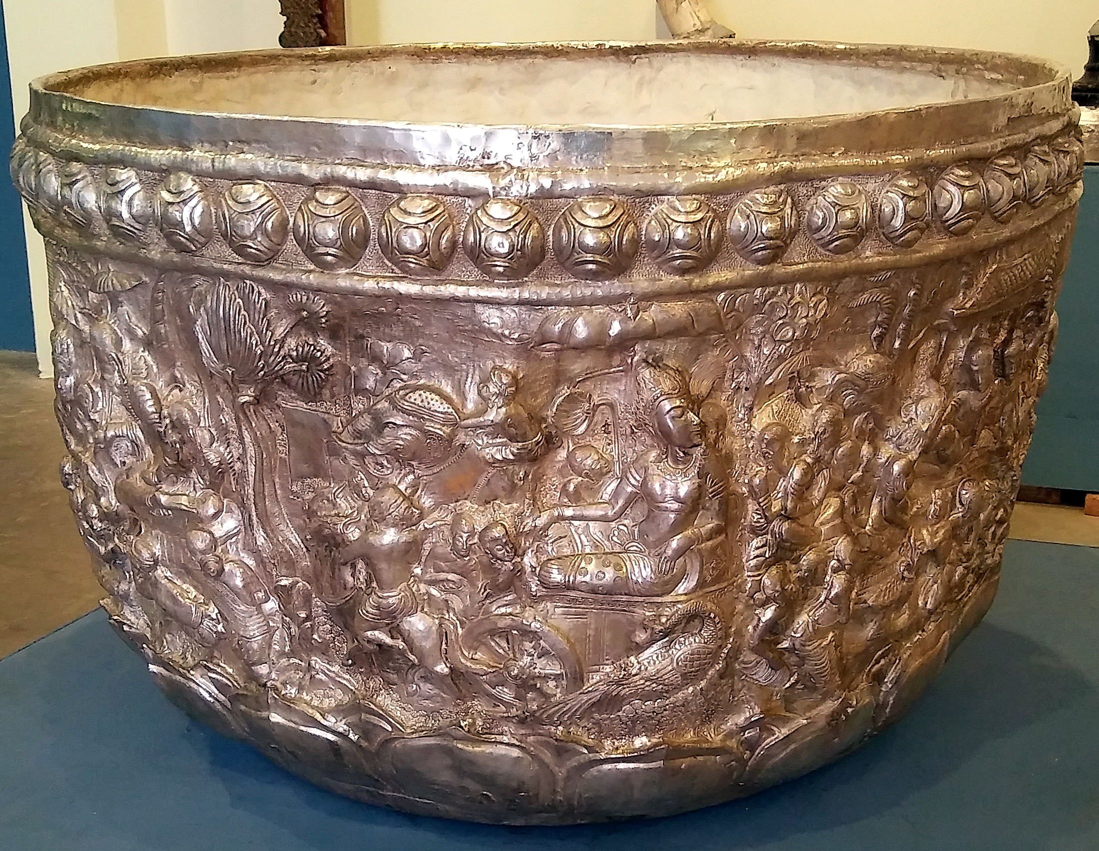 Hariphunchai National Museum, Lamphun, Thailand; Silver cauldron in the permanent exhibition of the museum